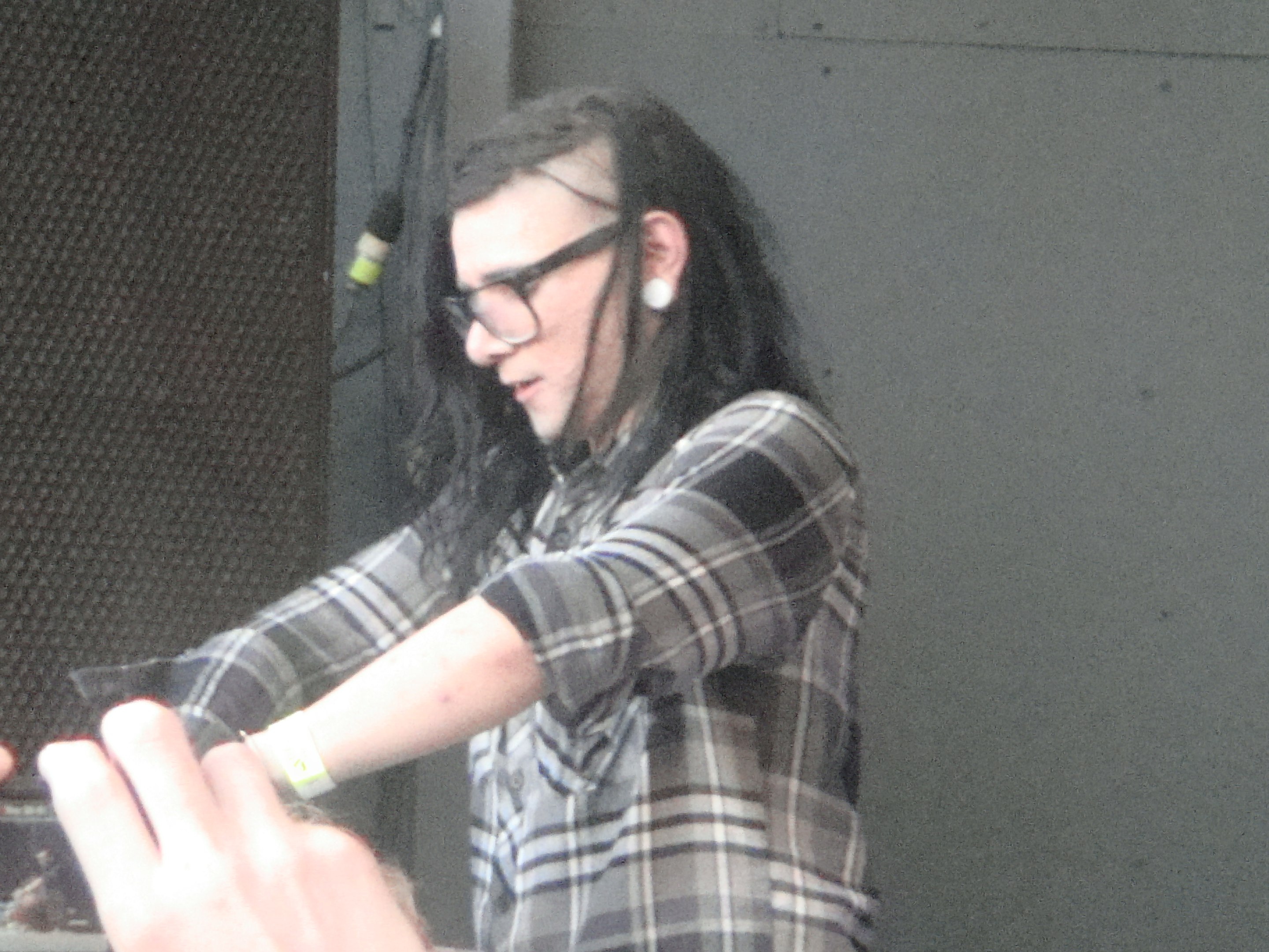 Skrillex at the Spin Party at SXSW on March 18th, 2011